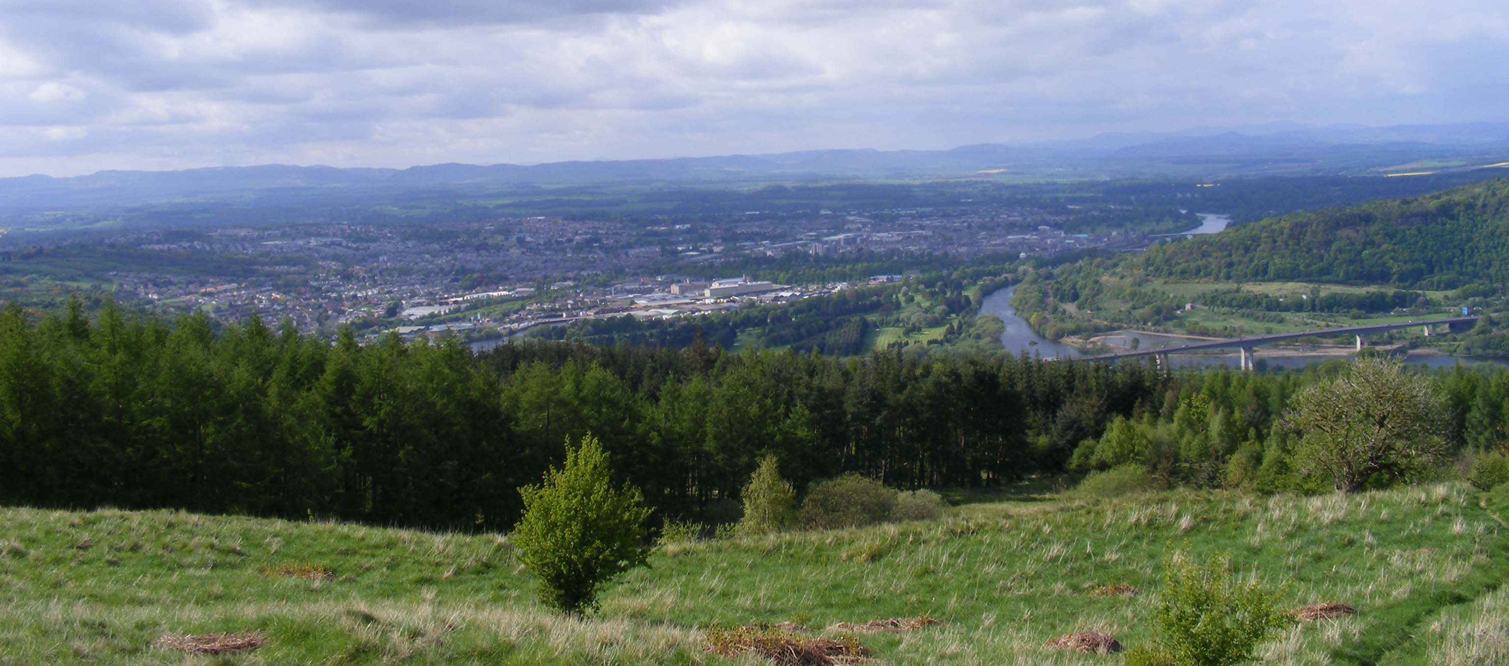 View over Perth from Moncrieffe Hill